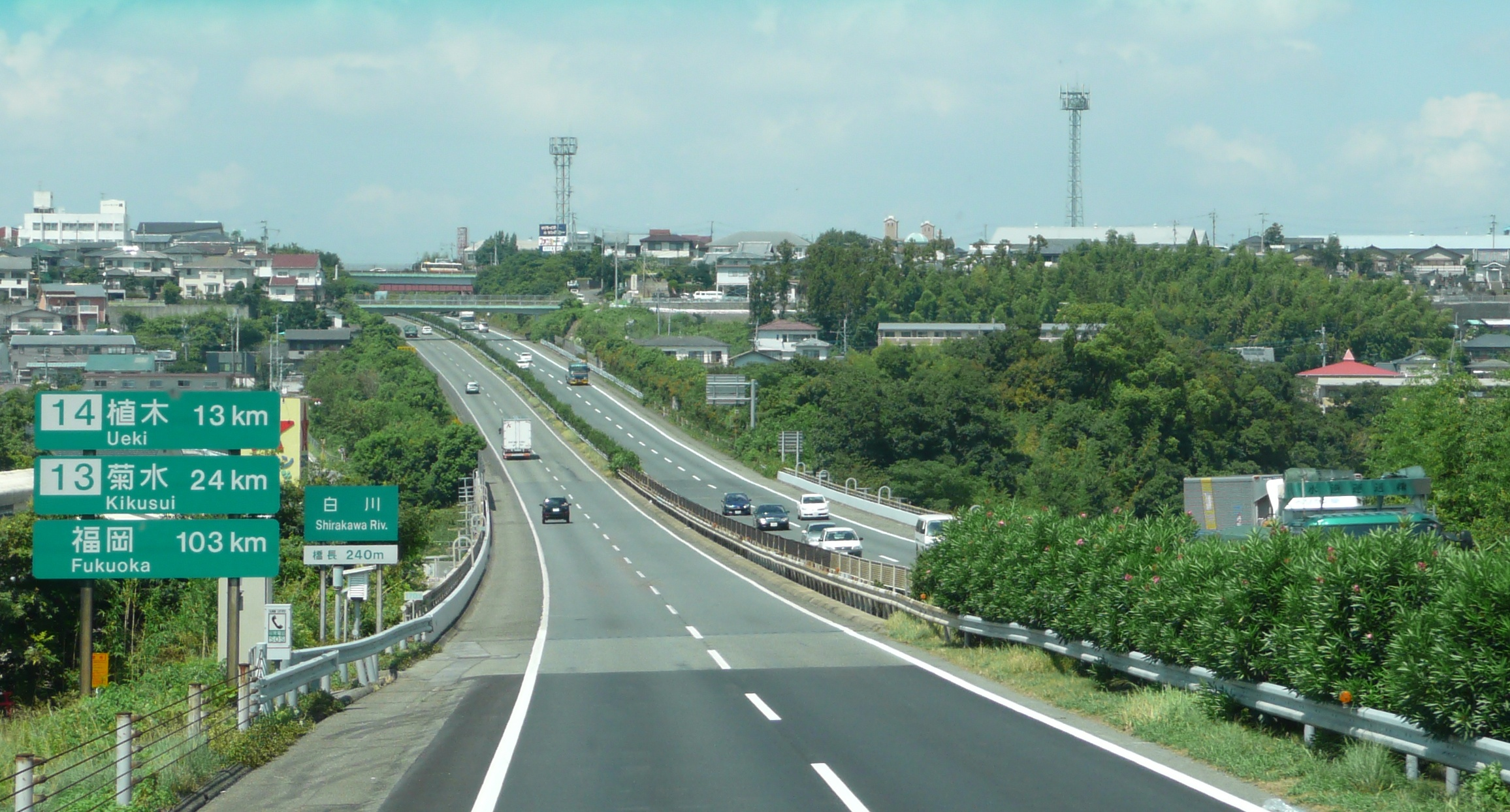 Kyūshū Expressway at Kumamoto City, Japan.